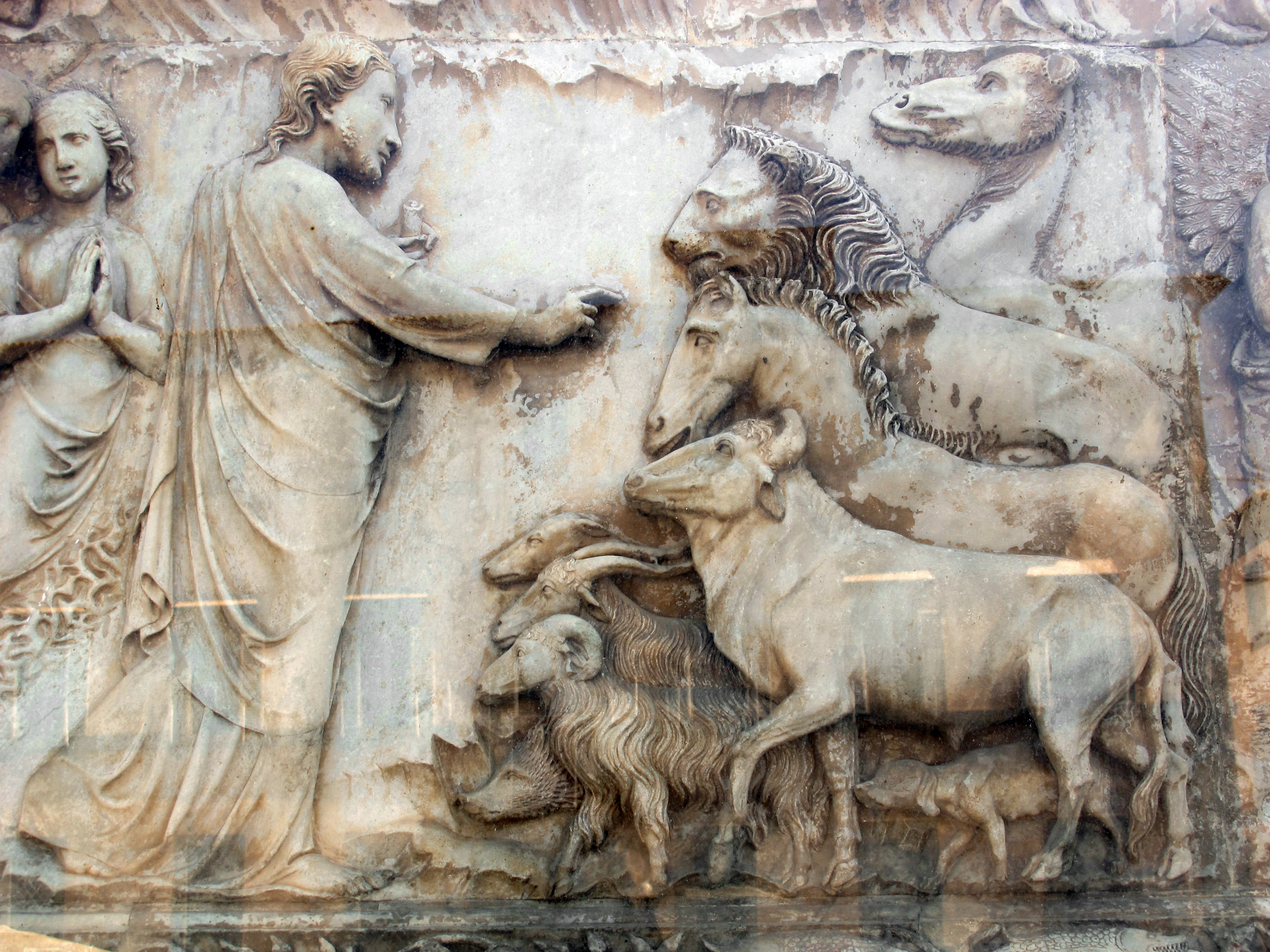 Facade of Duomo di Orvieto - Reliefs of the first pillar